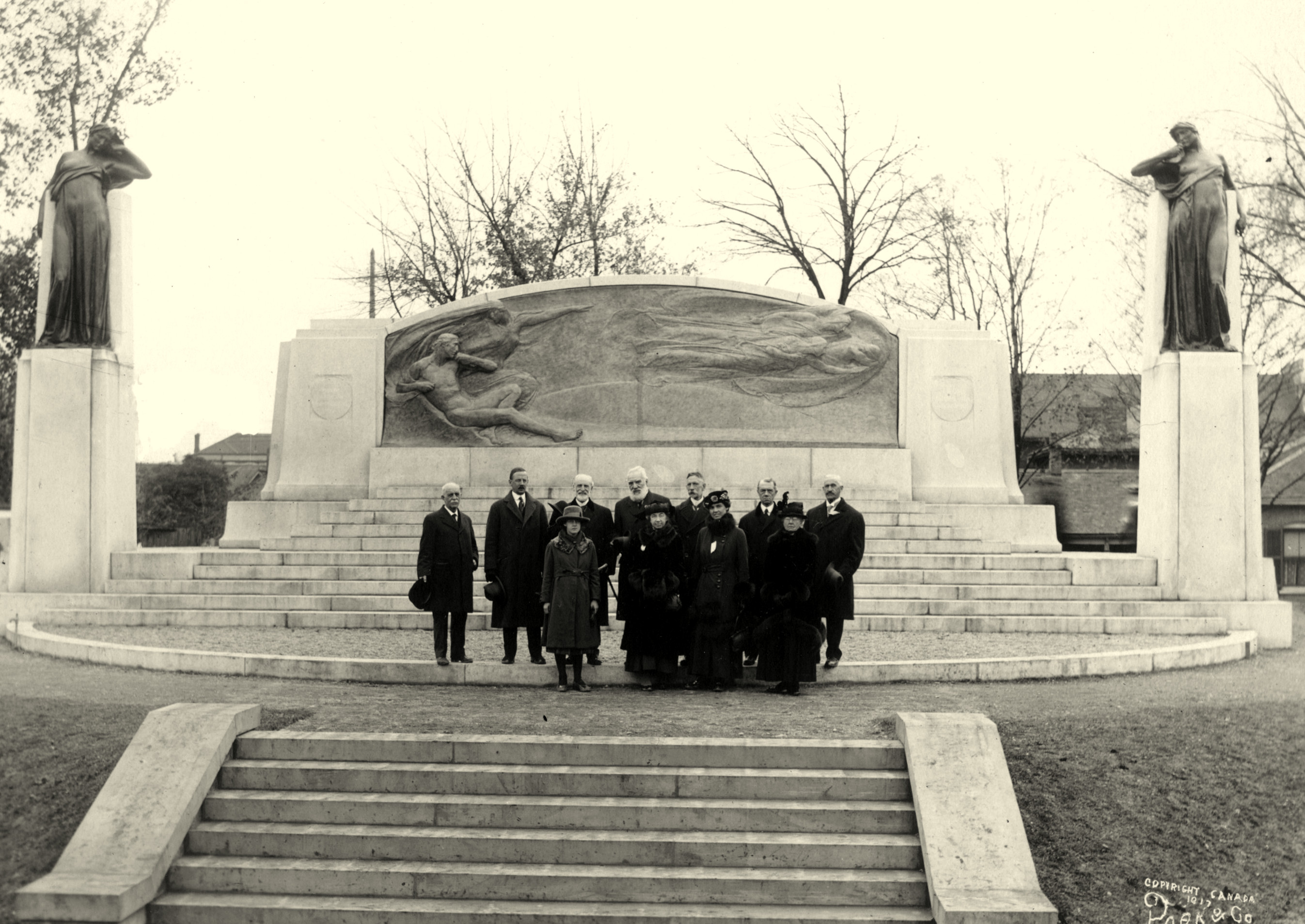 View of the dedication of the Bell Telephone Memorial, including Alexander Graham Bell, members of his family plus committee members, erected to commemorate the invention of the telephone by Bell in Brantford, Ontario, Canada, in the summer of 1874. Rear row: (l to r) three executive members of the Bell Memorial Association, Alexander Graham Bell centre, William Foster Cockshutt, M.P., plus two more Association executive members.Front row: (l to r) Mabel H. Grosvenor (Bell's grand-daughter, later to be Dr. Mabel H. Grosvenor), Mrs. Alexander Graham Bell (Mabel), and Mrs. Gilbert Grosvenor (Elsie - Dr. & Mrs. Bell's eldest daughter), plus one other person.